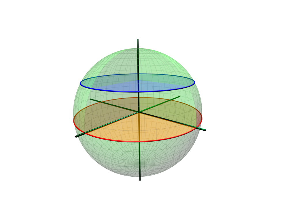 Illustration of the geometrical small and great circles